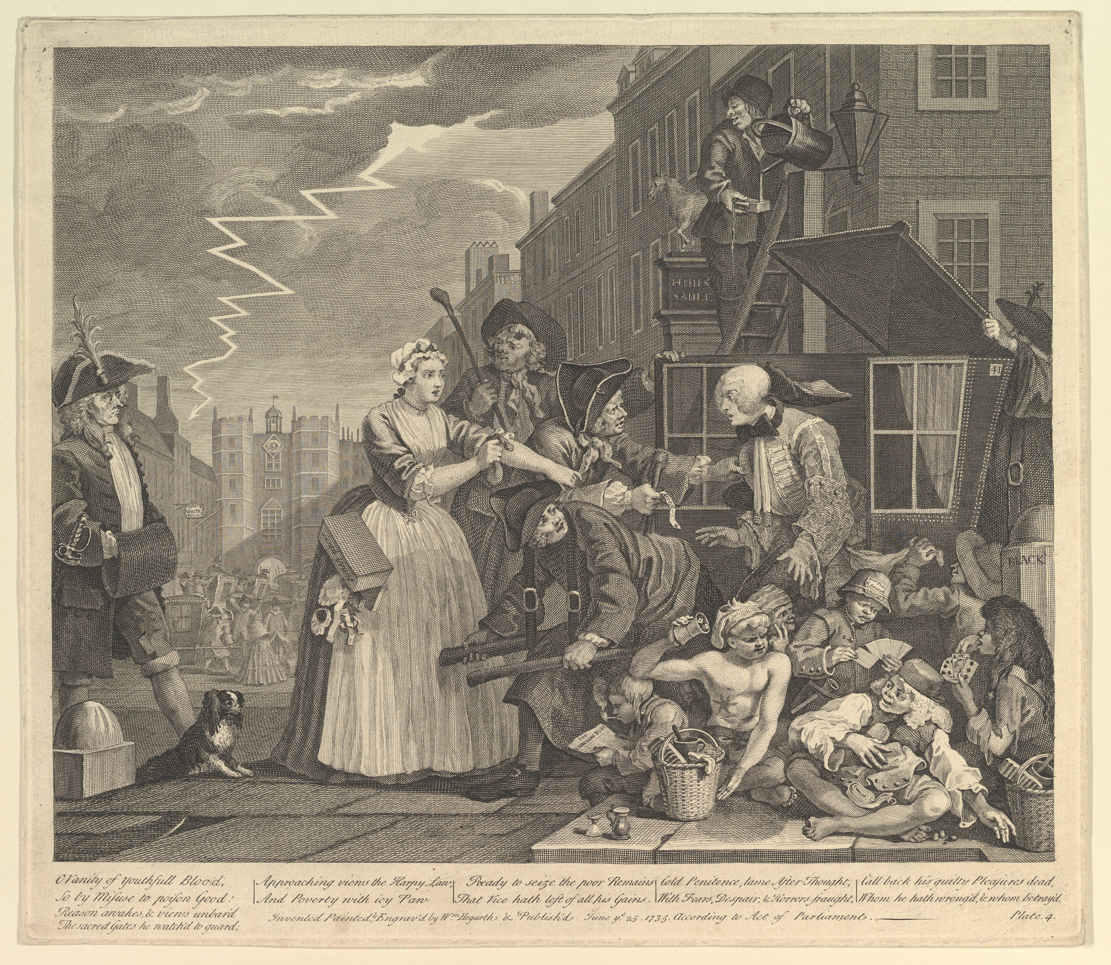 Print; Prints